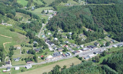 Overhead photograph of the town of Lansing, NC.